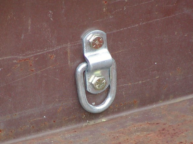 D-ring cargo tiedown on the wall of a utility trailer.